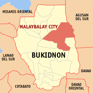 Map of the Bukidnon showing the location of Malaybay